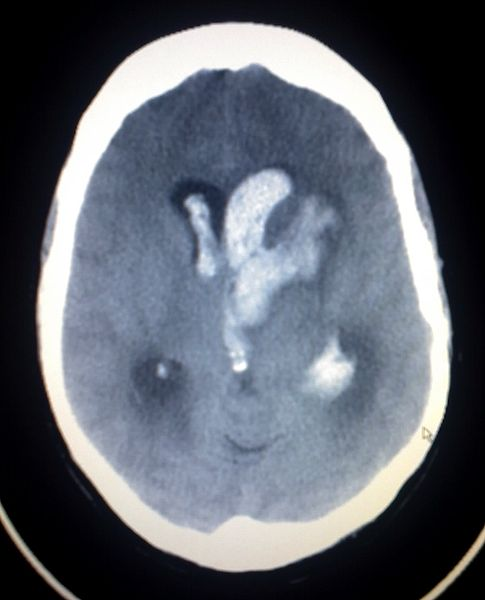 This image shows an Intracerebral and Intraventriclar haemorrhage of a young woman. The woman was one week post partum, with no known trauma involved.